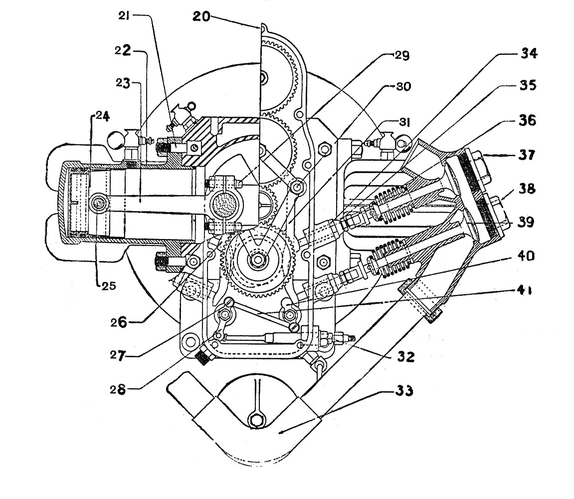 Fig. 241 Douglas opposed-twin Douglas opposed-twin motorcycle engine, longitudinal section Scans from 'The Book of the Motor Car', Rankin Kennedy C.E., 1912 See other images from this source in Scans from 'The Book of the Motor Car'